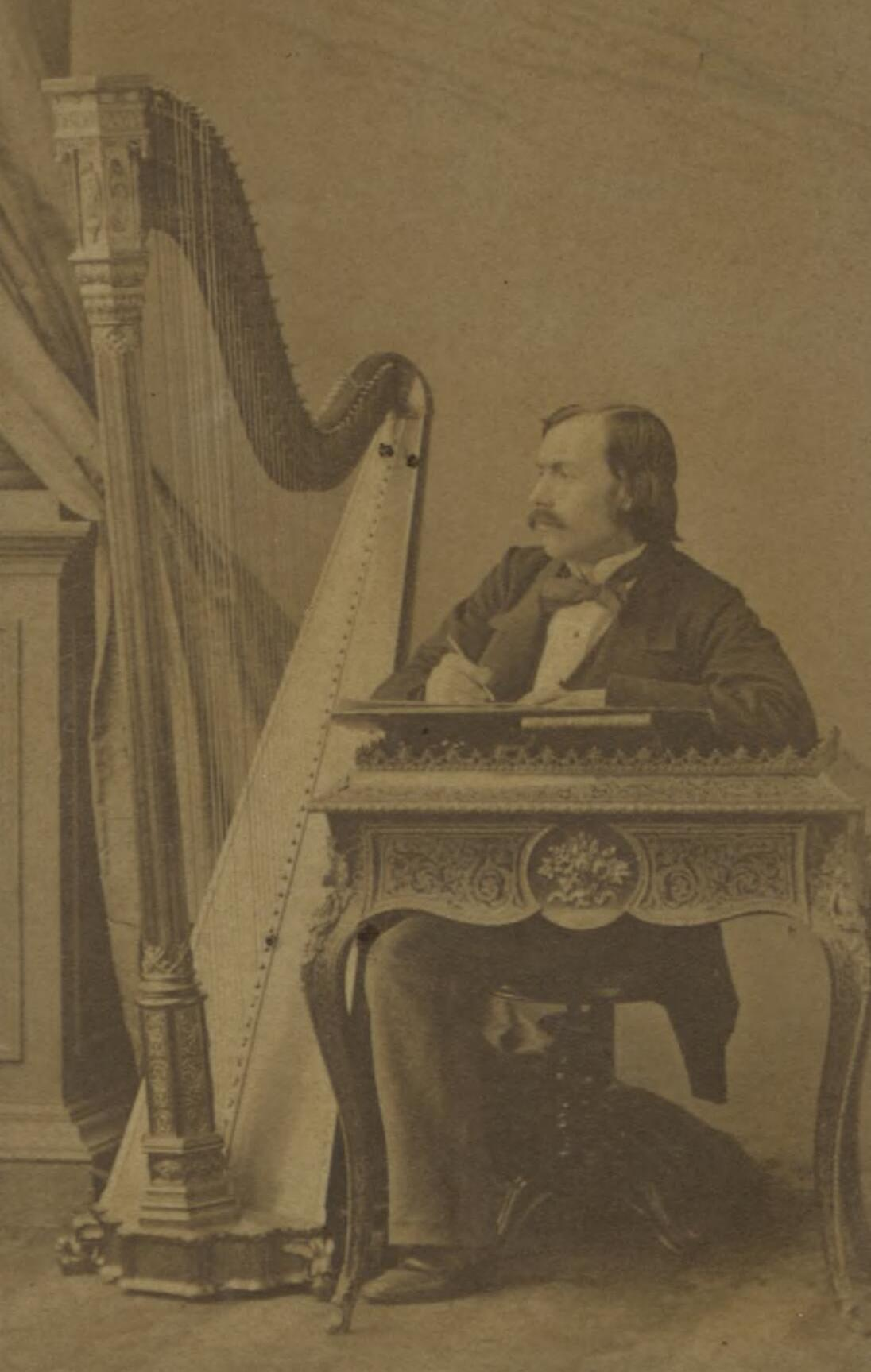 A portrait from the Welsh Portrait Collection at the National Library of Wales. Depicted person: John Thomas – Welsh composer and harpist, called Pencerdd Gwalia